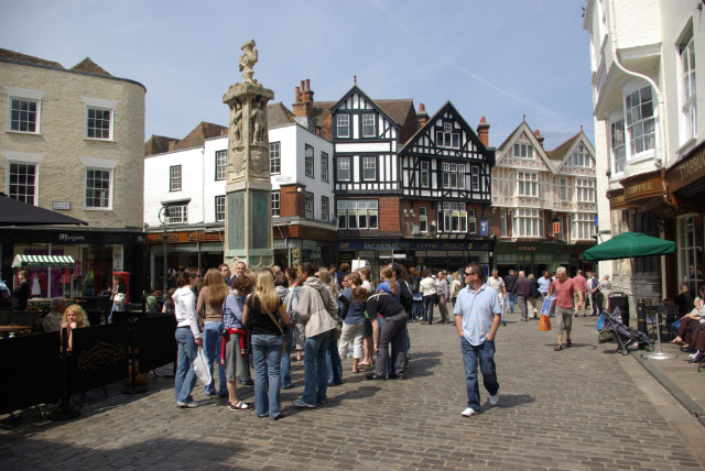 The Buttermarket, Canterbury The heart of the medieval city, immediately outside the gate to the cathedral precinct, nowadays bustling with tourists, students and local people. The centrepiece of the square is a war memorial.